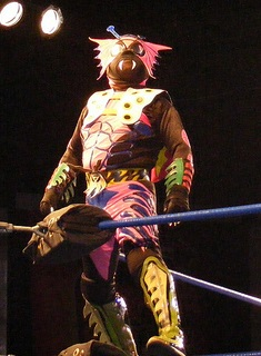 Masked Mini-Estrella wrestler Cuije posing during a Chikara event